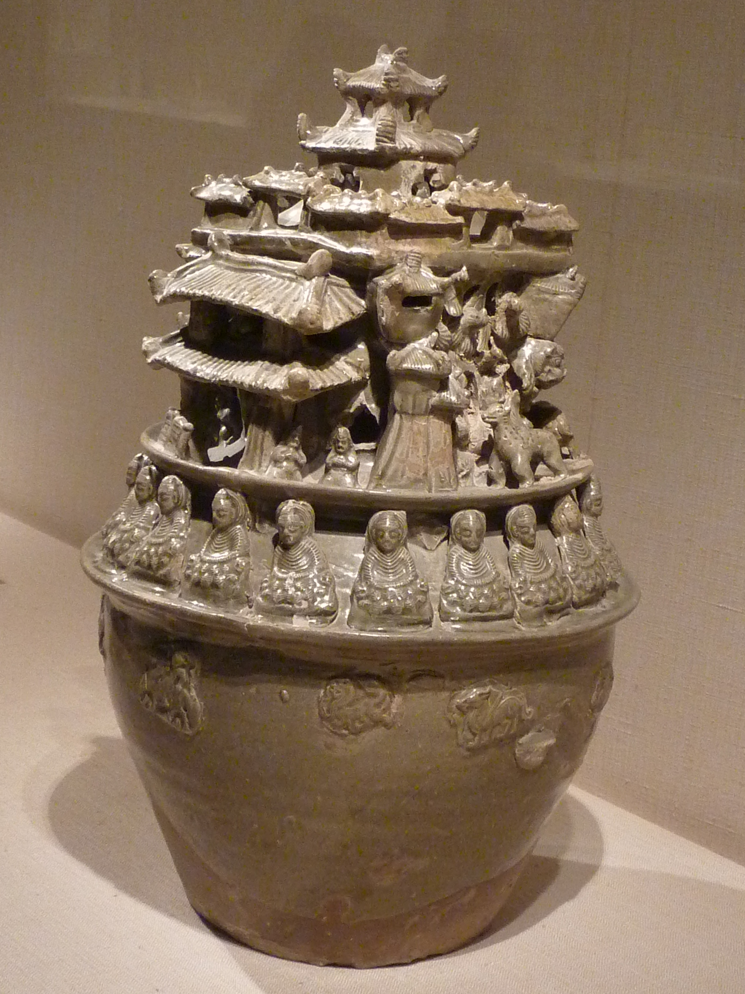 A Chinese funerary urn (hunping) in the Metropolitan Museum of Art. Item no. 1992.165.21. According to the label, such urns were characteristic of the areas south of the Yangtze (south Jiangsu / northern Zhejiang) ca. 250-300 AD, during the Jin Dynasty. The row of seating Buddhas is one of the earliest Buddhist images in China.